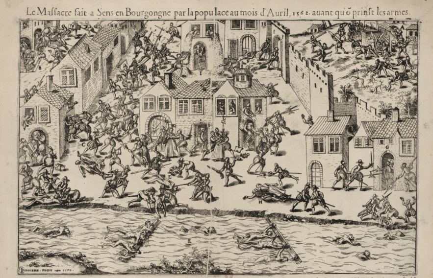 16th Century Representation of the Massacre as it unfolded according to the Protestant narrative.